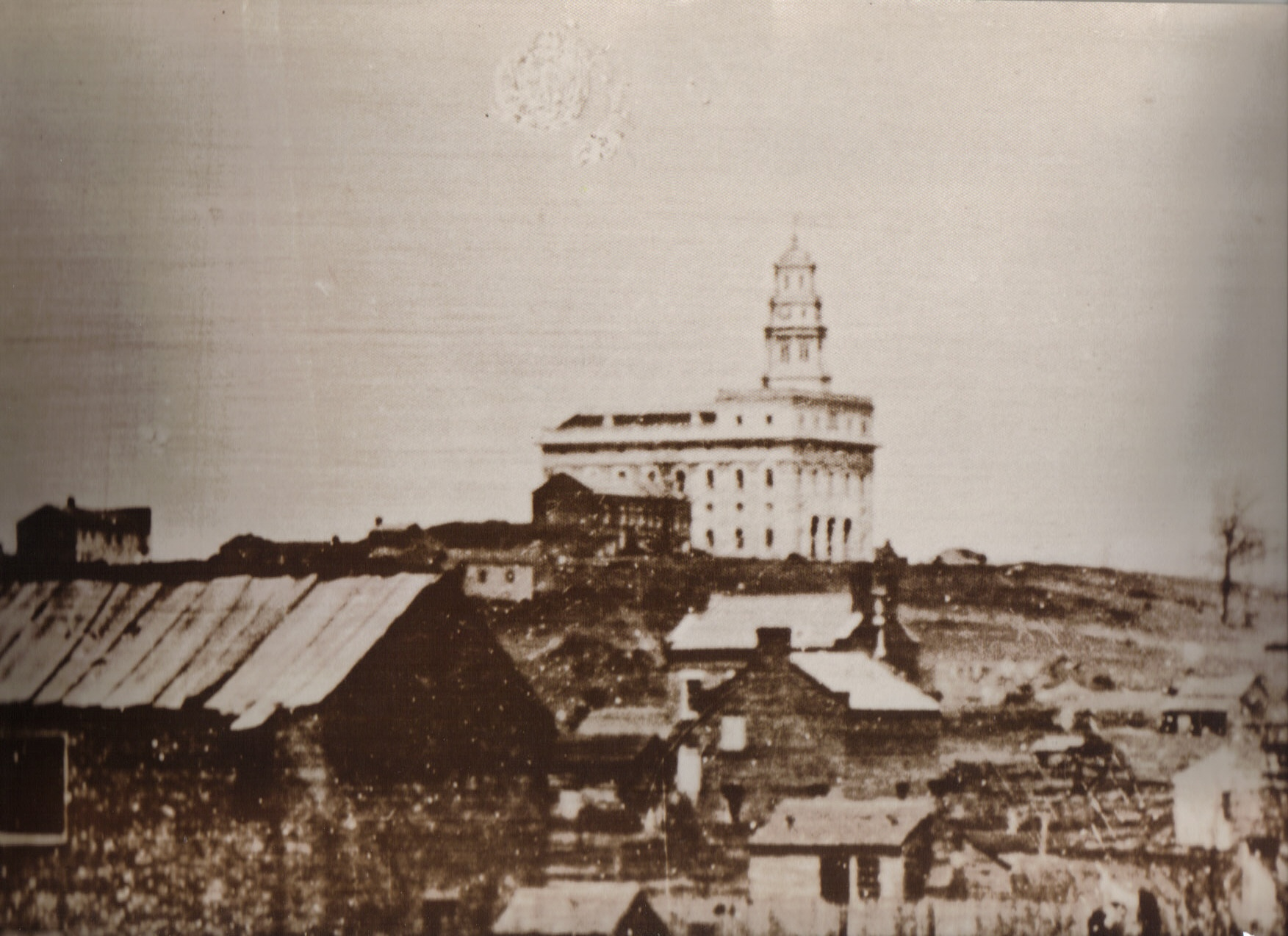 The Nauvoo Temple, the second temple constructed by the Church of Jesus Christ of Latter Day Saints.